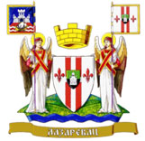 Coat of arms of Lazarevac, Serbia/Blason de la ville de Lazarevac, Serbie